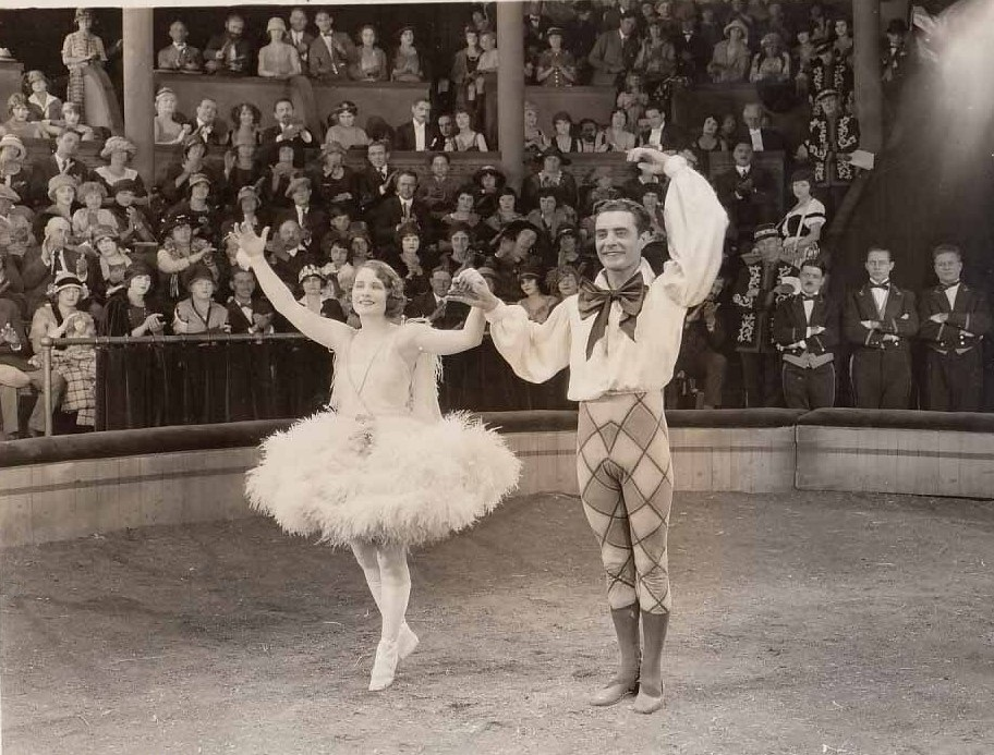 Norma Shearer and John Gilbert in He Who Gets Slapped (1924) - publicity still (cropped)